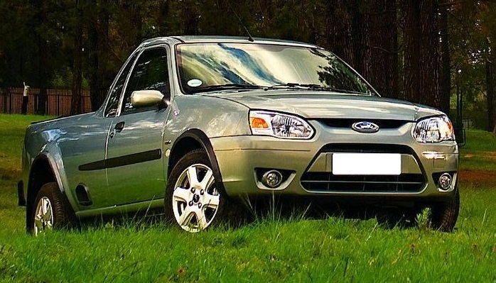 A Ford Fiesta Mk.V-derived Ford Bantam, second facelift.